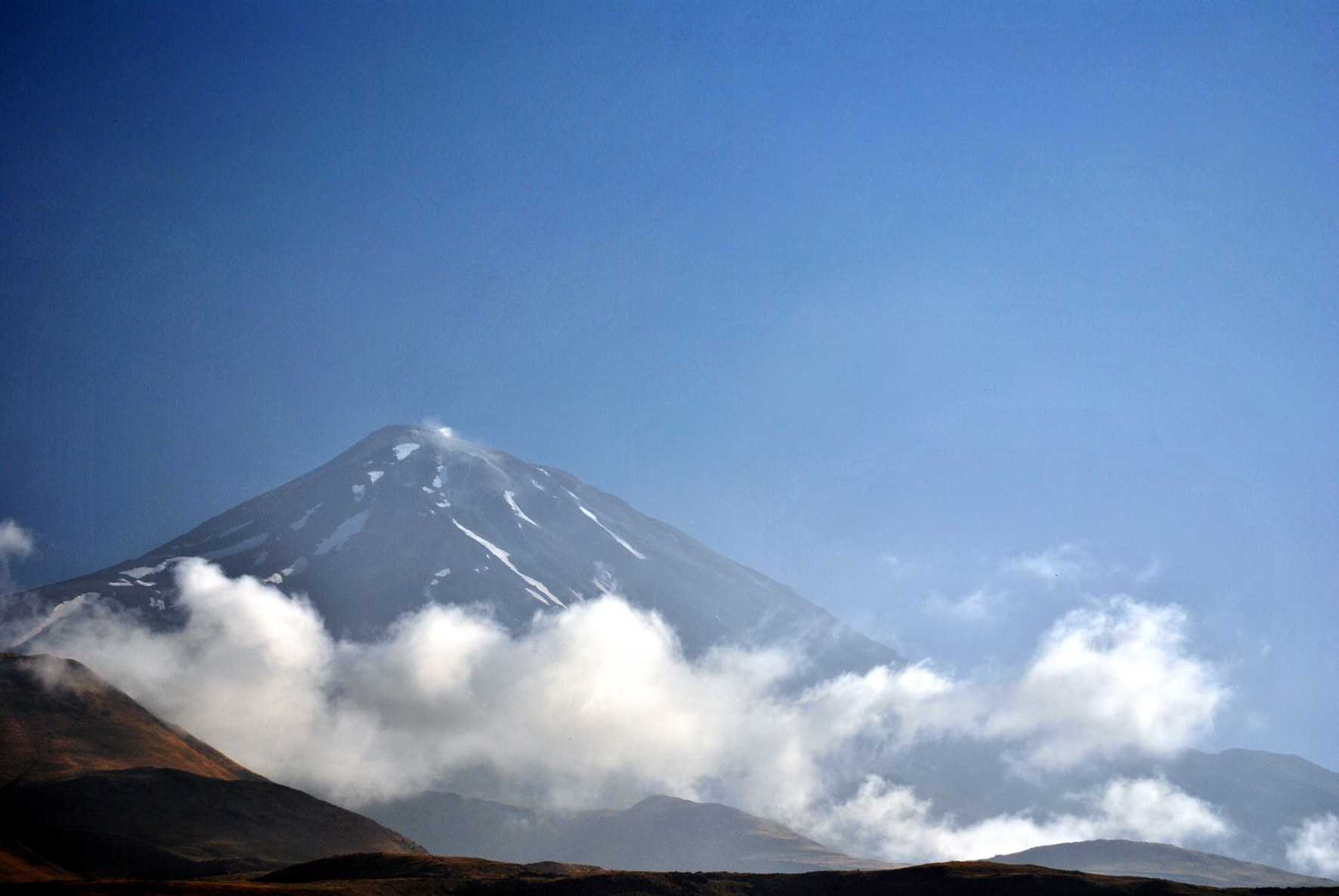 Damavand view from Haraz road